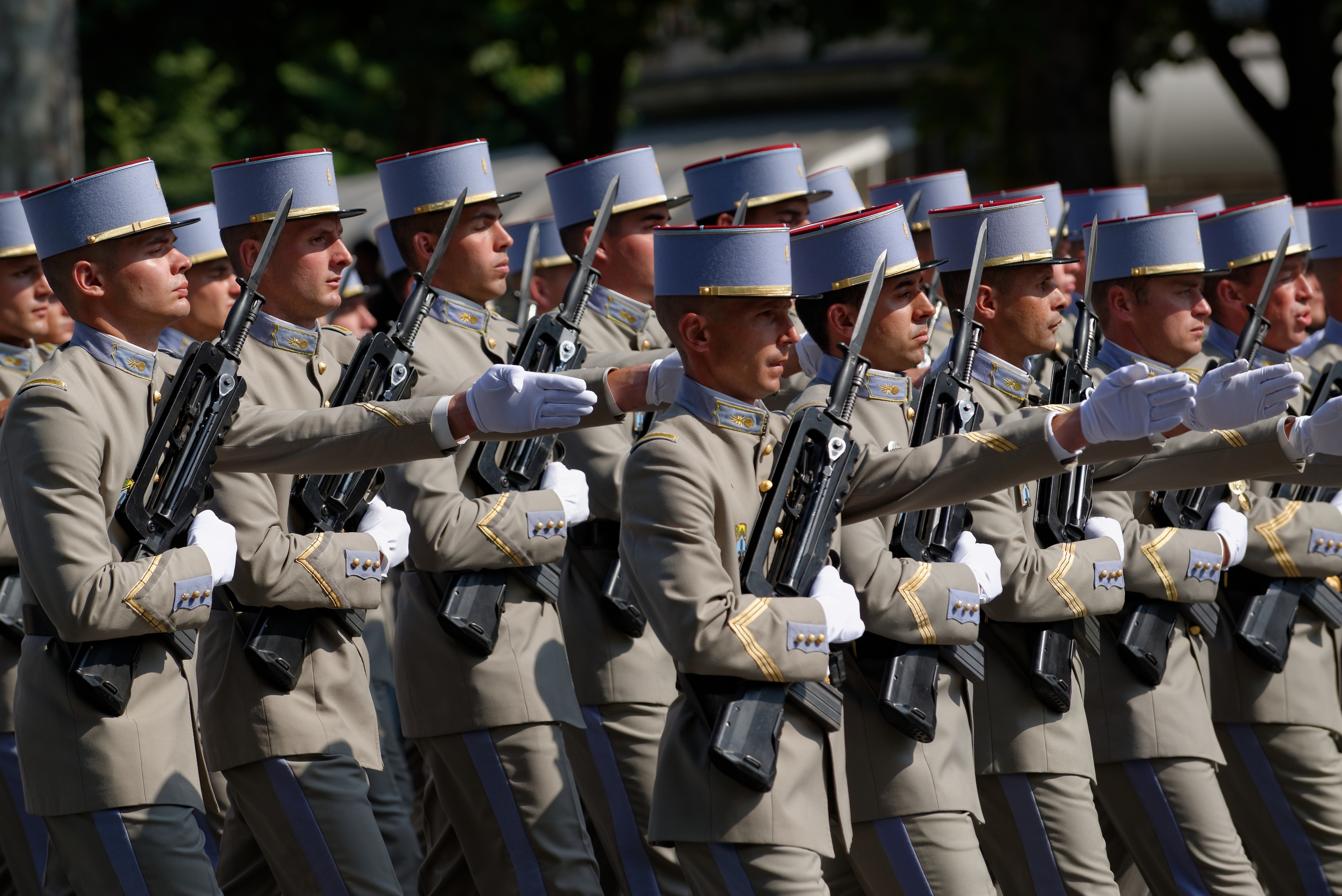 Cadets of the École nationale des sous-officiers d'active in the Bastille Day 2013 military parade on the Champs-Élysées in Paris.